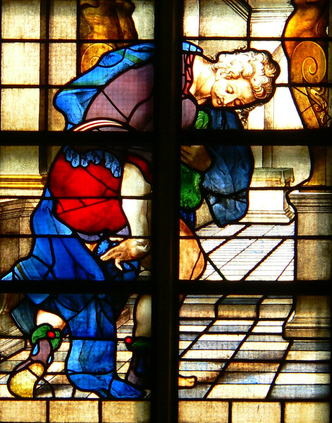 The stained-glass window number 27 (detail) in the Sint Janskerk at Gouda/Netherlands: "The parable of the Pharisee and the publican"